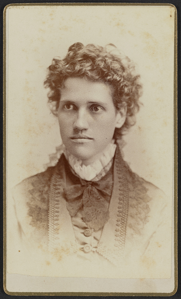 "Photograph shows Julia Josephine Thomas Irvine (1848-1930), Greek scholar and 4th President of Wellesley College (1894-1899)."